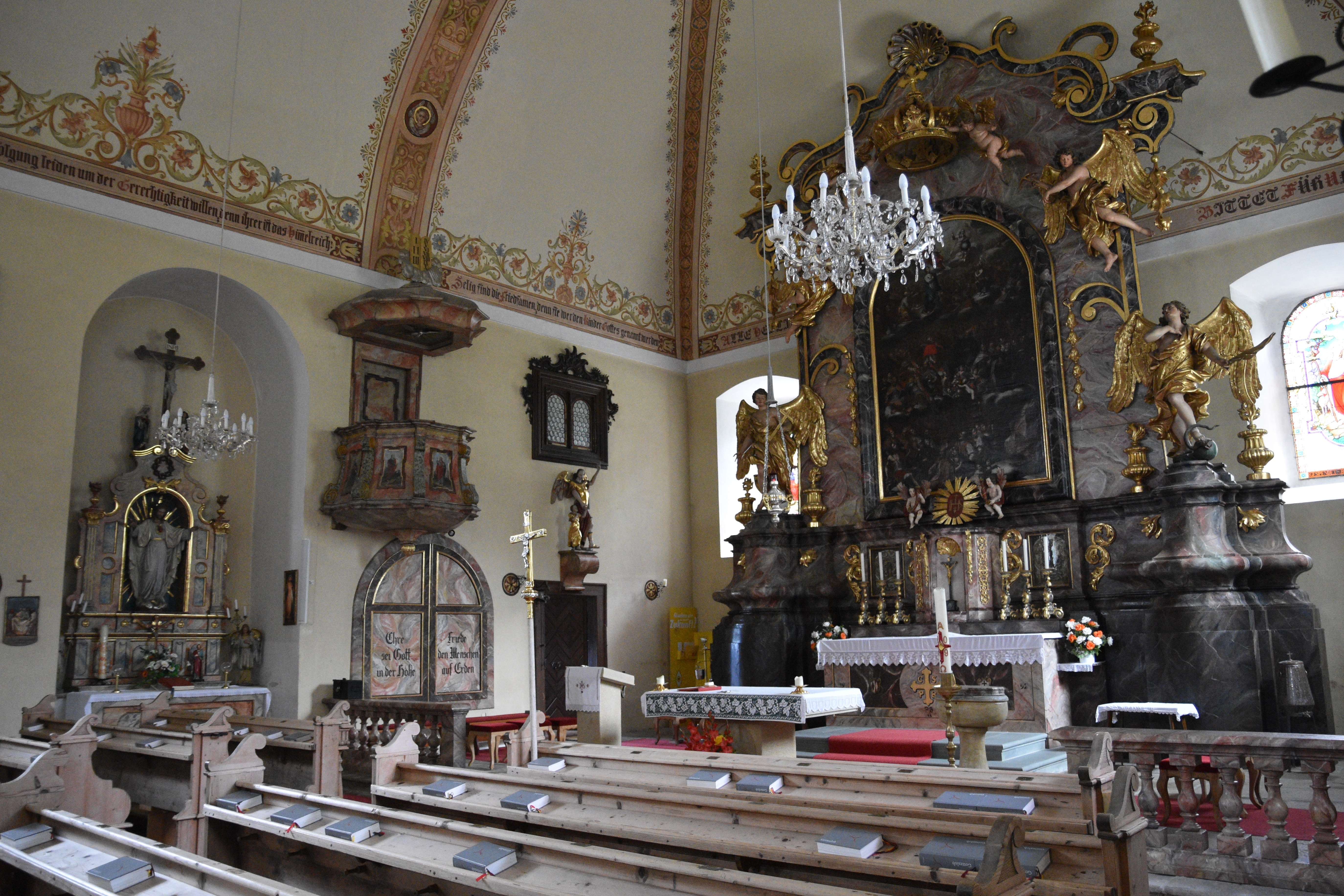 Church Kath. Pfarrkirche Allerheiligen mit Friedhof - Interior